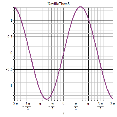 Neville ThetaS function Maple plot